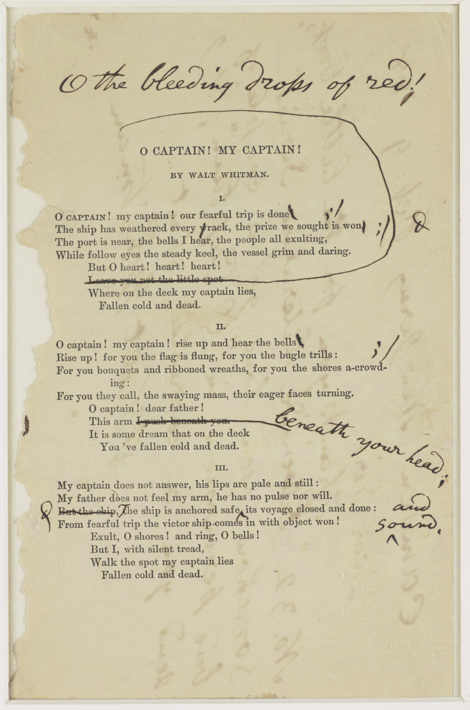 Slip proof with Whitman's autograph corrections for a new edition of "O Captain! My Captain!" (firstly published in 1865)